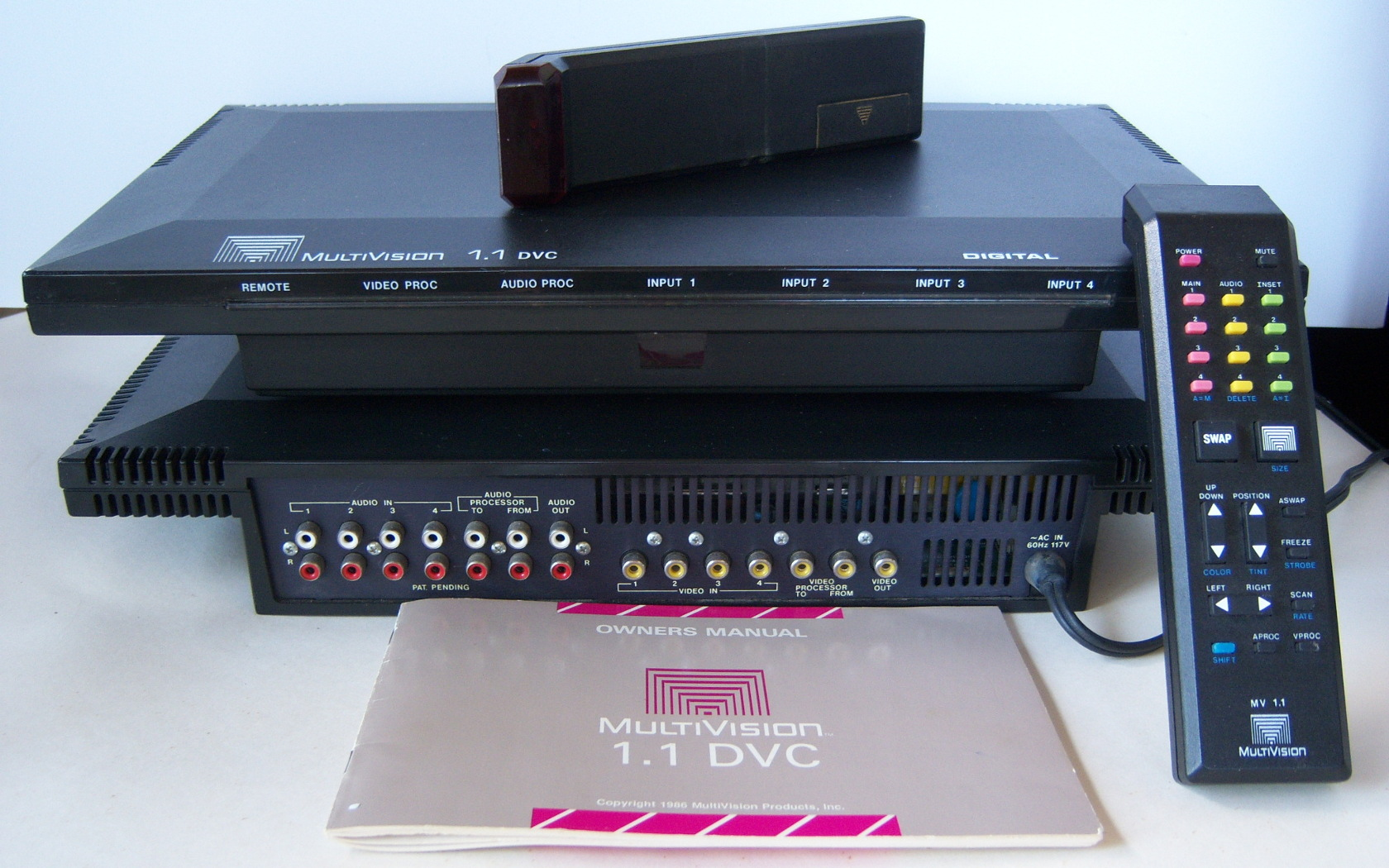 Two 1986 model 'MultiVision 1.1 DVC' "Digital" A/V controllers; featuring Picture-In-Picture, four composite input sets, switchable external audio and video processors inputs and outputs; showing front and rear views with remotes and manual